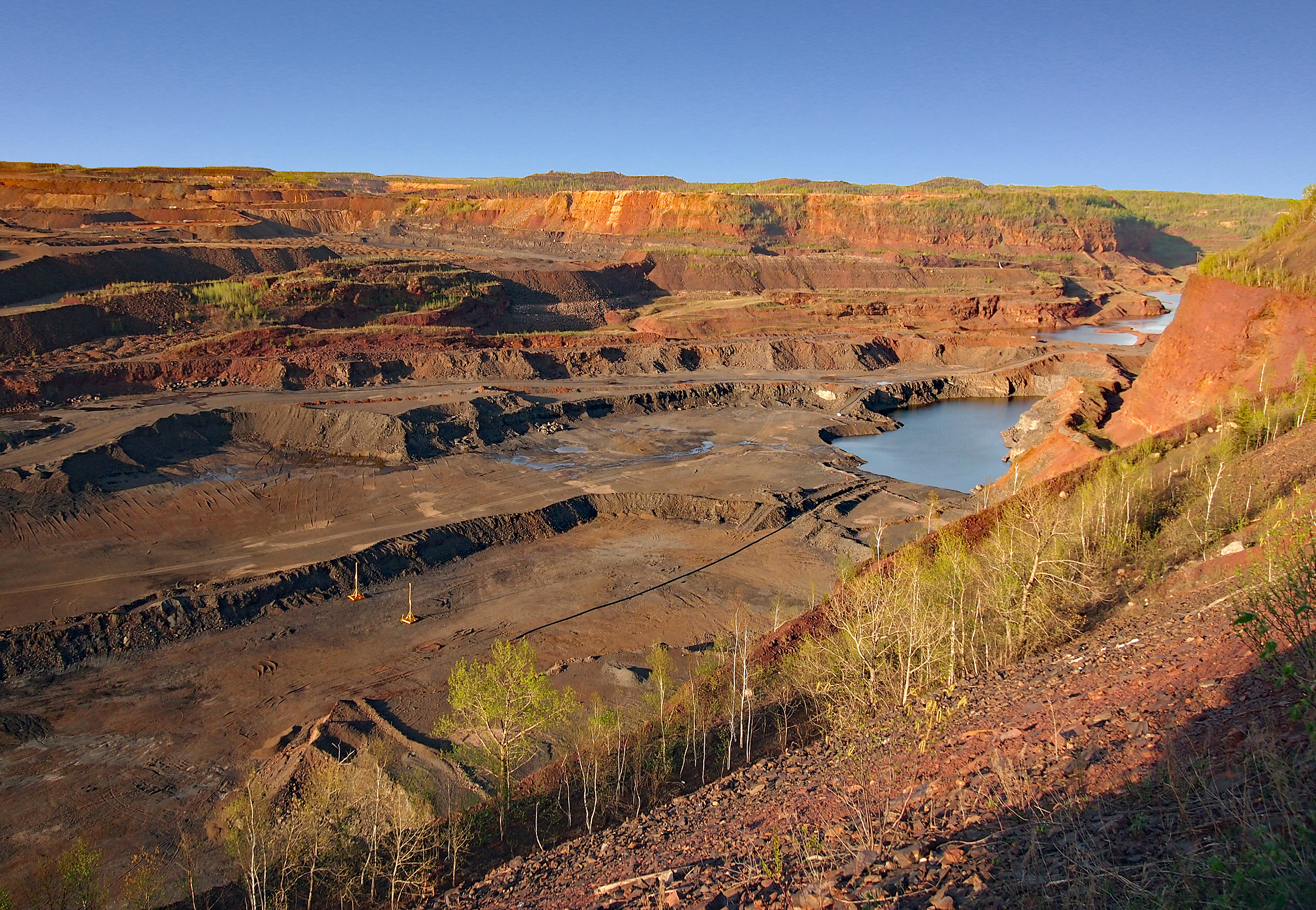 Hull–Rust–Mahoning Open Pit Iron Mine from mine overlook, Hibbing, Minnesota, USA. View is to the northeast nearing sundown.